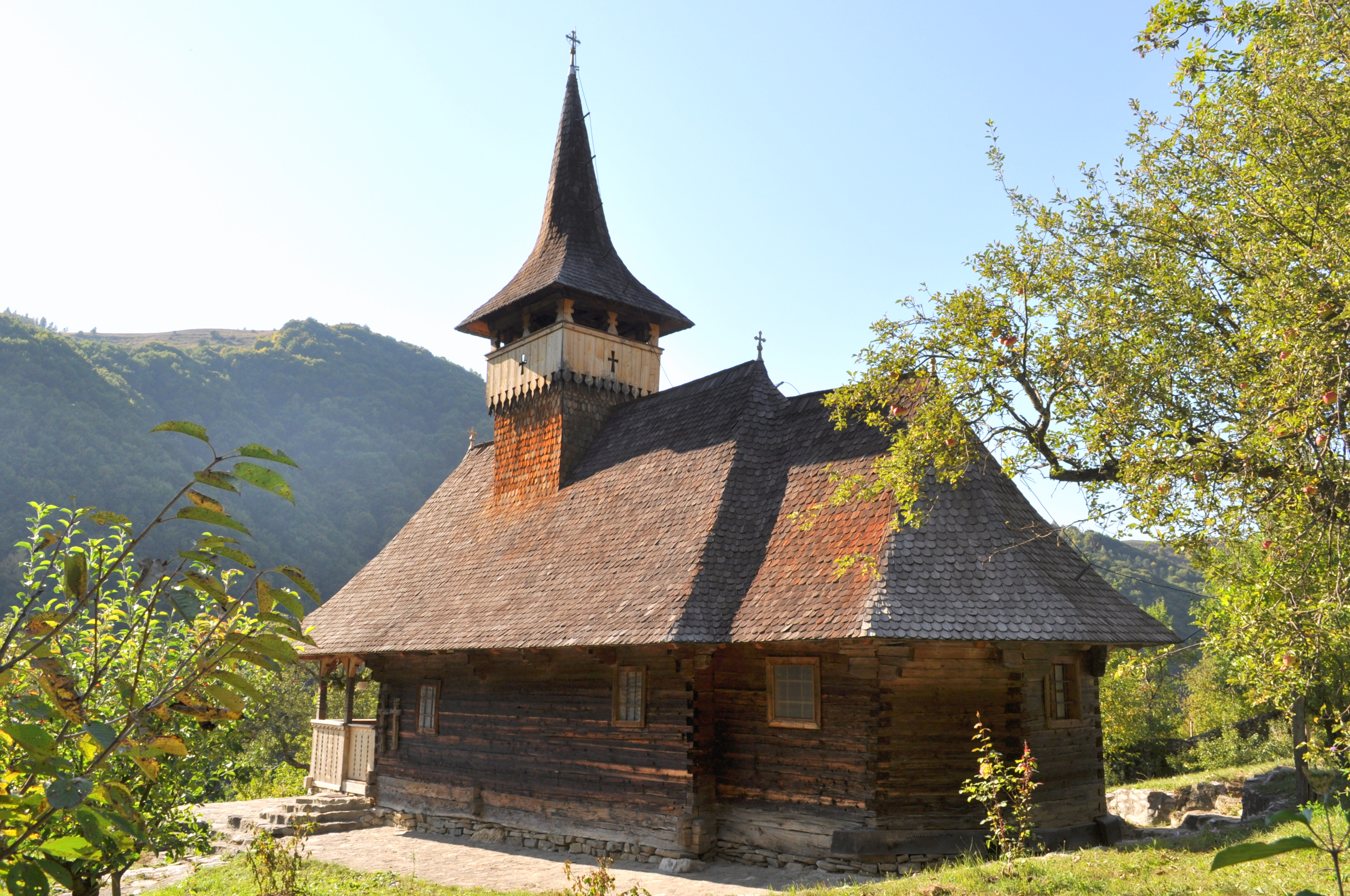 Wooden church in Sub Piatră, Alba countyRomână: Biserica de lemn din Sub Piatră, județul Alba